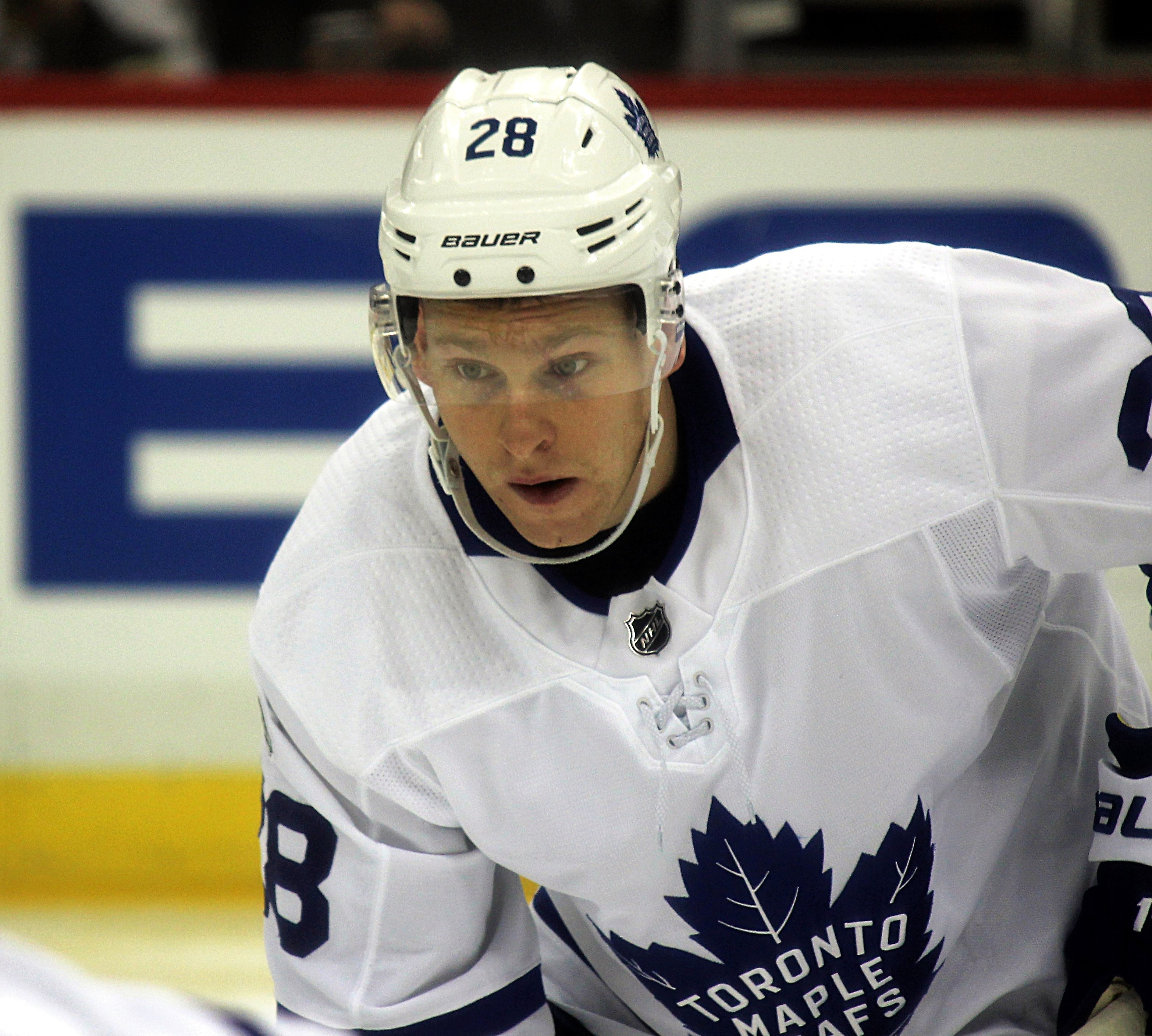 Toronto Maple Leafs forward Connor Brown during a game against the Pittsburgh Penguins, December 9, 2017, at PPG Paints Arena in Pittsburgh, PA.